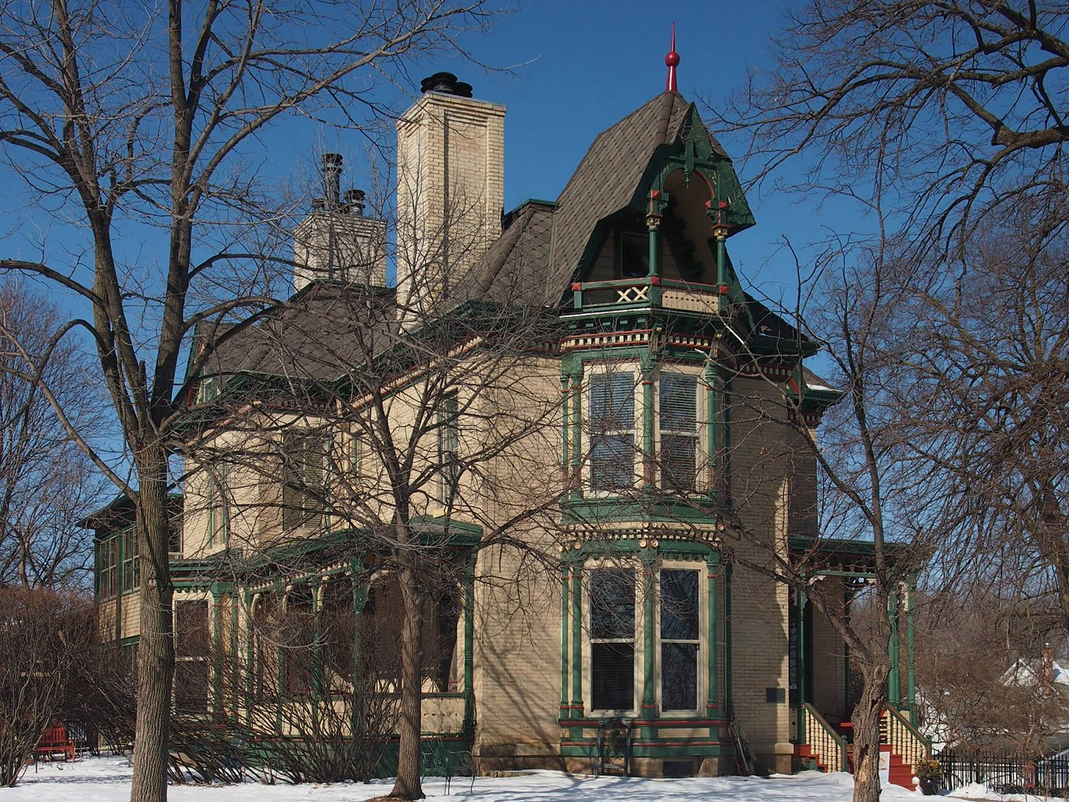 Rudolph Latto House (now The Historic Inn on Ramsey Street), 620 Ramsey St, Hastings, Minnesota, USA. Viewed from the southeast.